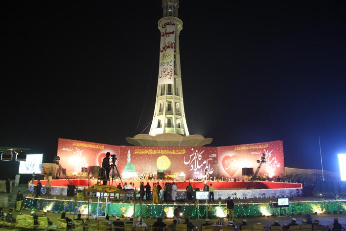 The 26th annual and the Islamic world's biggest ever "International Mawlid-un-Nabi Conference" under the banner of Minhaj-ul-Quran International was held on the intervening night between the 11th and the 12th of the holy month of the Rabi-ul-Awwal (February 26, 2010) at the historic Minar-e-Pakistan. Licensing Policy about Wikipedia: This is to clarify that all contents and images of this website can be used with reference of this website on Wikipedia under the free license: Creative Commons Attribution-Share Alike 4.0 International.